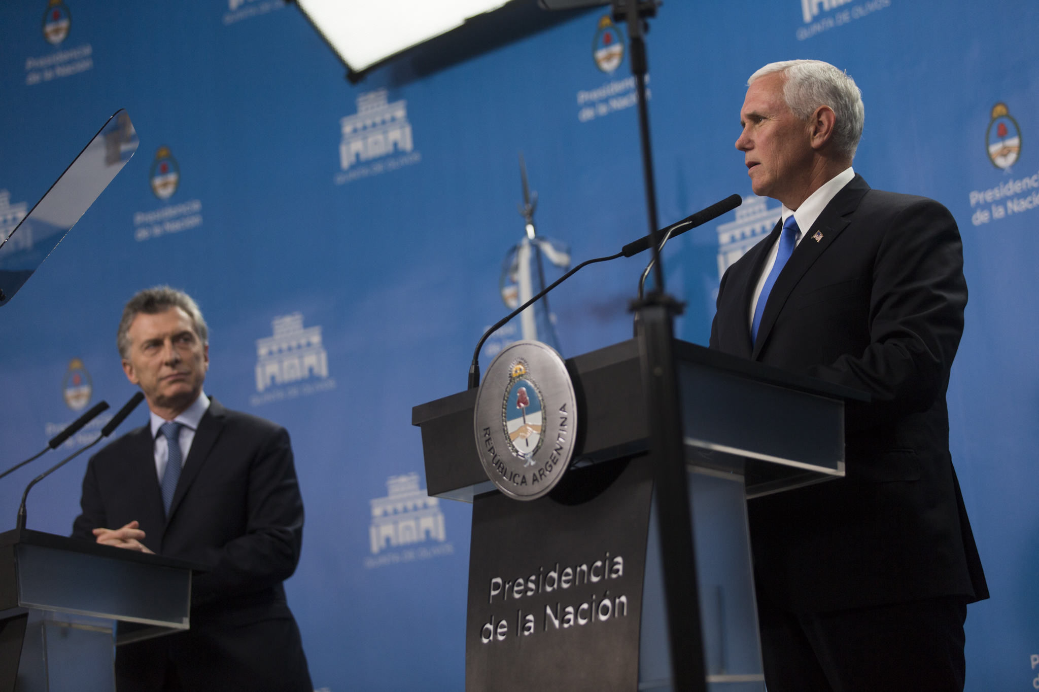 Vice President Mike Pence participates in a joint press conference with President Macri in Argentina